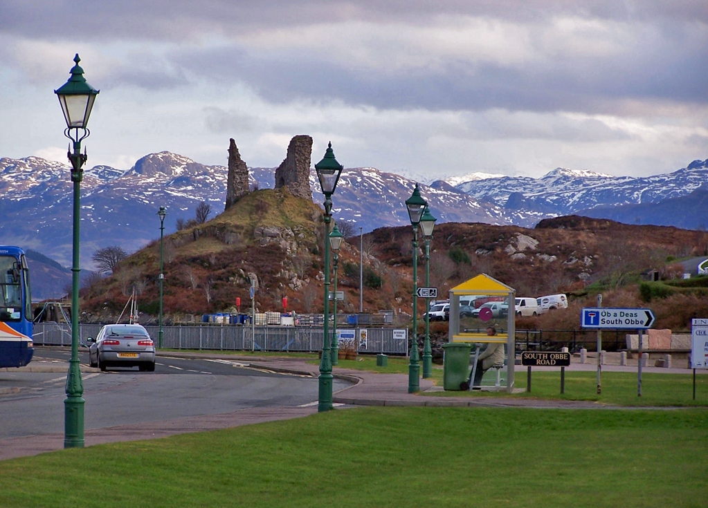 Caisteal Maol from Meuse Lane A view of the famous castle ruin, cluttered by lamp posts and other street furniture, seen from the harbour end of the green between Meuse Lane and Kyleside.